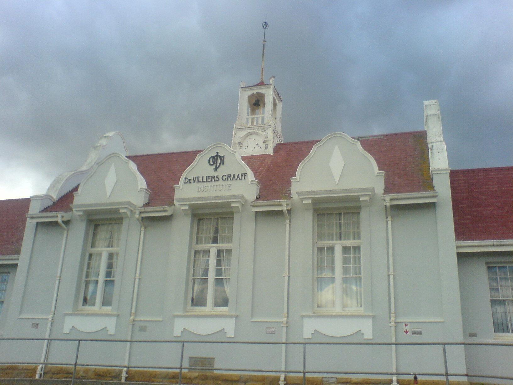 De Villiers Graaff High School from the front